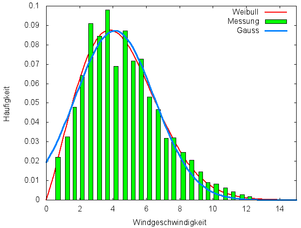 Typical distribution of wind strength in Germany. Red: Weibull-fit (k=2.0, 1/λ=5.14 m/s); Blue: Gaussian fit; Green: frequency of occurence of different levels of wind speed (m/s)